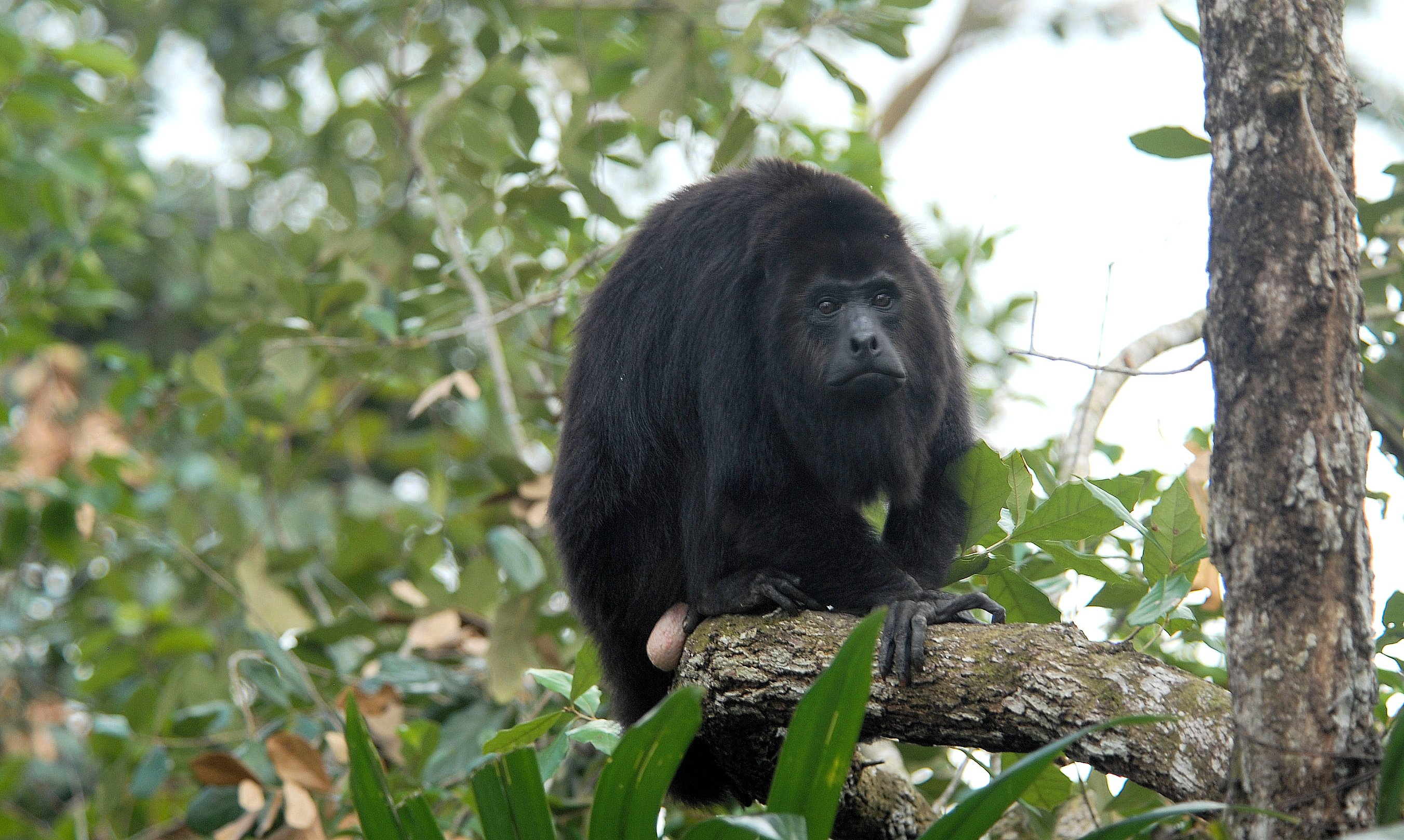 Guatemalan black howler (Alouatta pigra) in Belize Zoo.